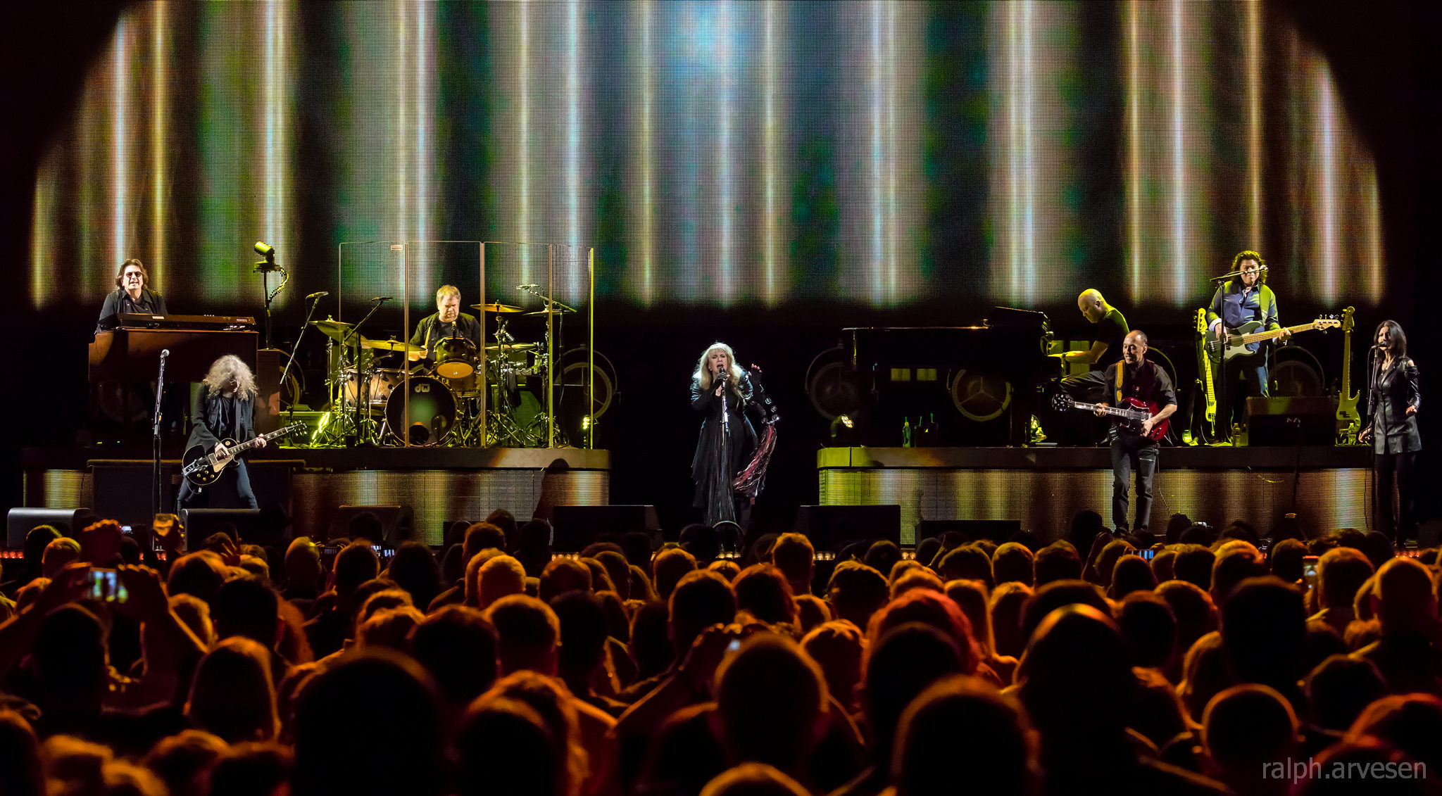 Stevie Nicks performing at the Frank Erwin Center in Austin, Texas on her 24 Karat Gold Tour.